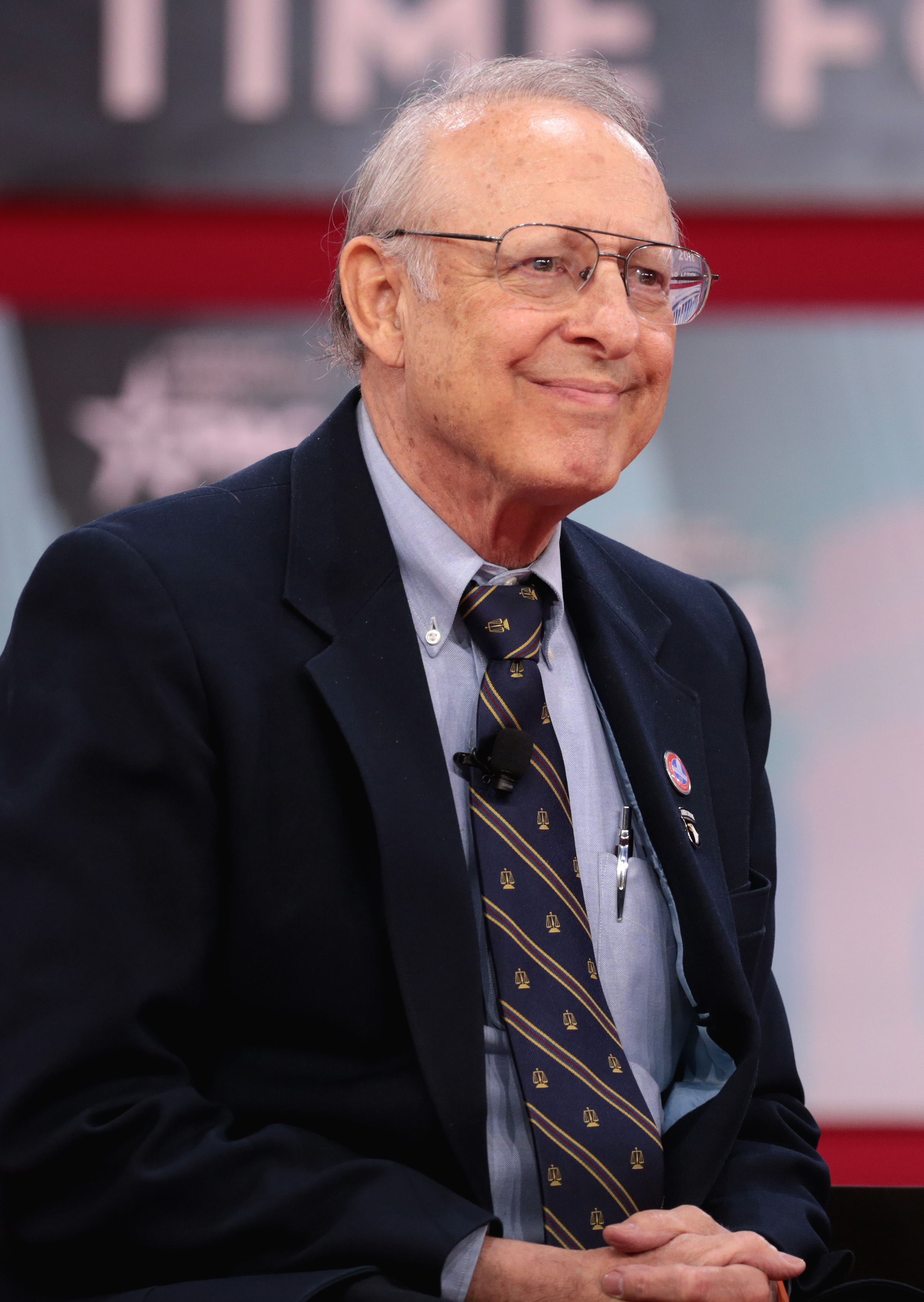 Dick Heller speaking at the 2018 CPAC in National Harbor, Maryland.